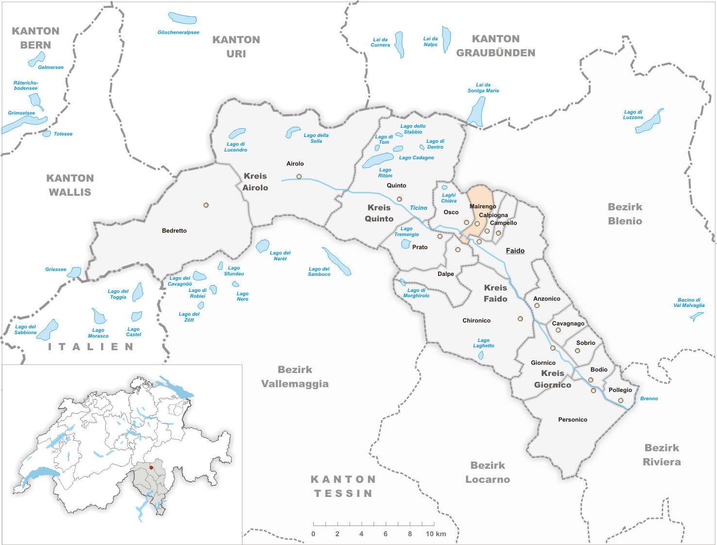 Municipality Mairengo